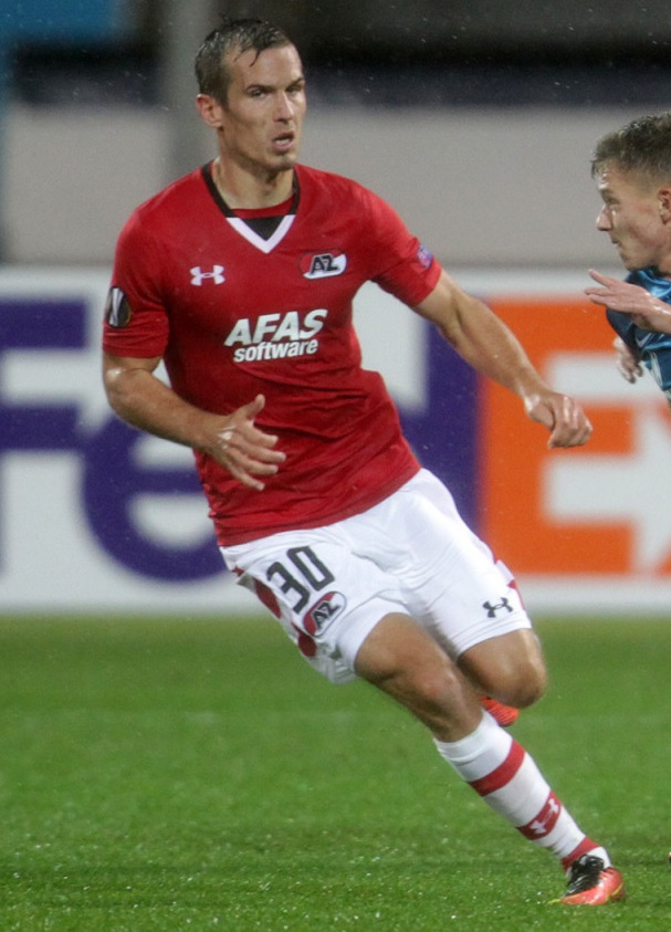 Stijn Wuytens playing for AZ in a game against FC Zenit Saint Petersburg.